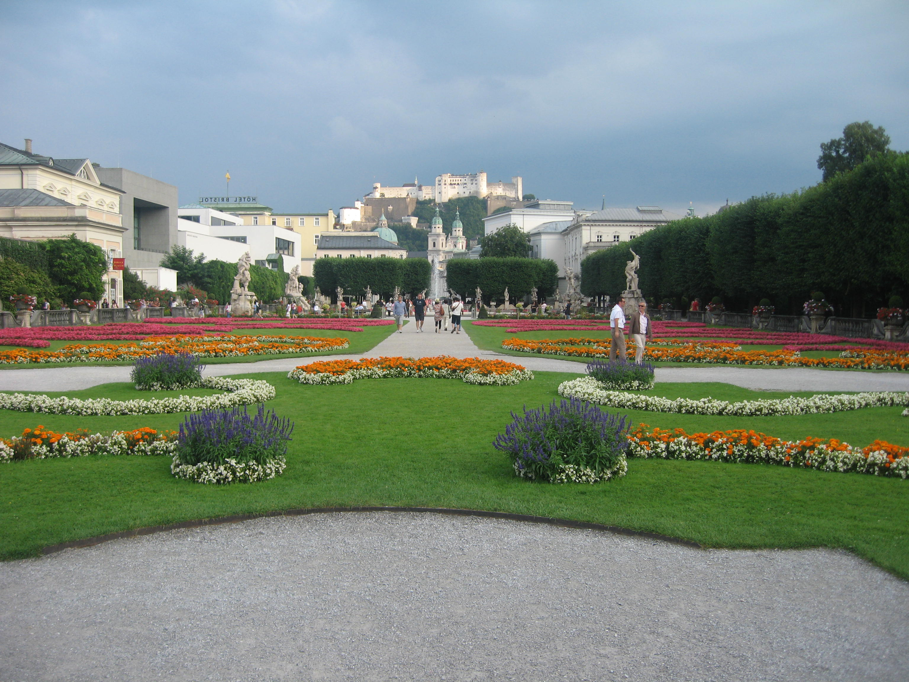 Mirabell Garten Salzburg Austria